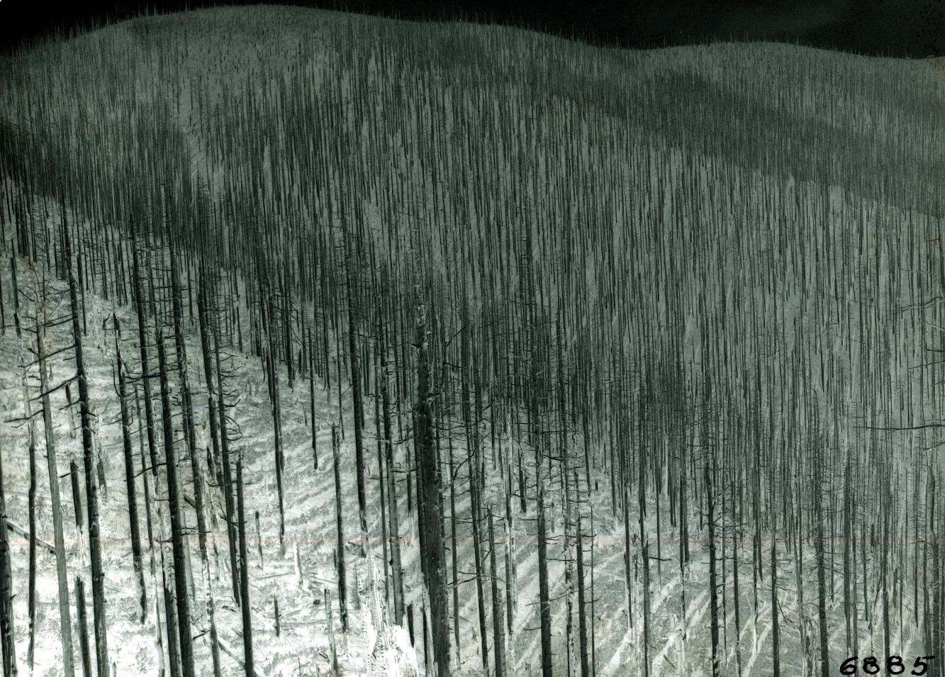 Fire-killed Douglas-fir 32 years after the 1902 Yacolt Burn. Photo by: J.A. Beal Date: July 1934 Credit: USDA Forest Service, Pacific Northwest Region, State and Private Forestry, Forest Health Protection. Collection: Bureau of Entomology Collection; La Grande, Oregon. Image: BUR-6885 To learn more about this photo collection see: Wickman, B.E., Torgersen, T.R. and Furniss, M.M. 2002. Photographic images and history of forest insect investigations on the Pacific Slope, 1903-1953. Part 2. Oregon and Washington. American Entomologist, 48(3), p. 178-185. For additional historical forest entomology photos, stories, and resources see the Western Forest Insect Work Conference site: Image provided by USDA Forest Service, Pacific Northwest Region, State and Private Forestry, Forest Health Protection: This image or file is a work of a United States Department of Agriculture employee, taken or made as part of that person's official duties. As a work of the U.S. federal government, the image is in the public domain.